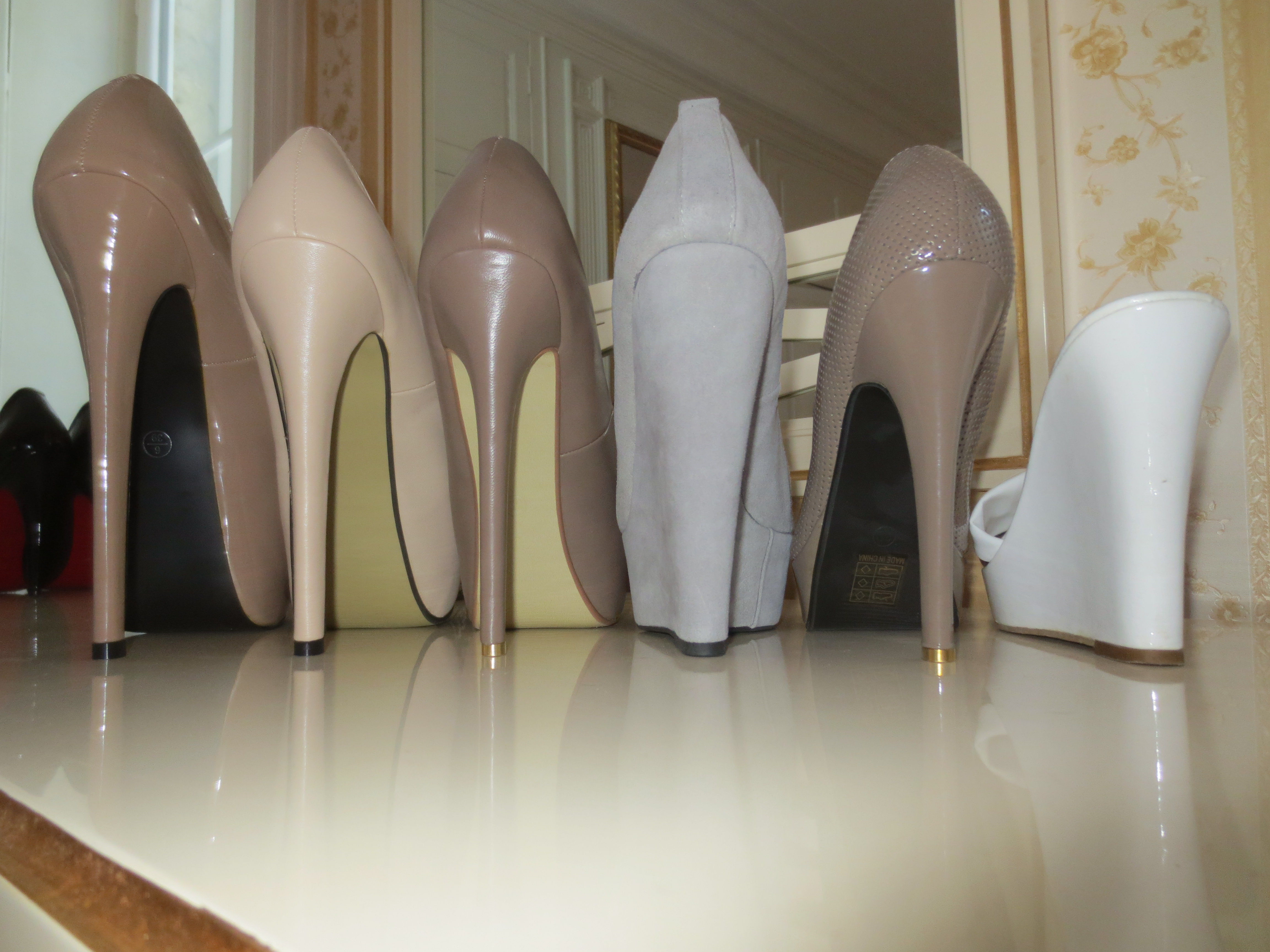 Platform shoes with A) 19 cm Heel - 8.5 cm Platform / B)-17.0 - 6.5 / C) 16.0 - 4.5 / D) 16.0 - 4.0 / E) 15.5 - 3.5 / F) 13.5 - 2.5; Rear View